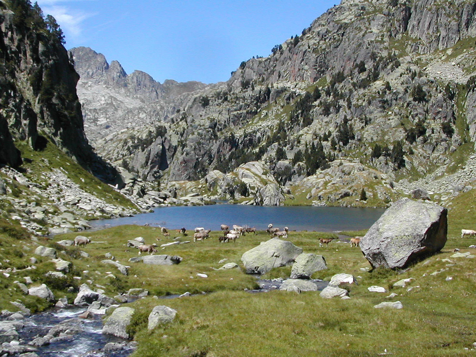 Mountain meadow pasture and lake in Vall de Colieto of the Pyrenees in the Catalonia region of northeastern Spain.